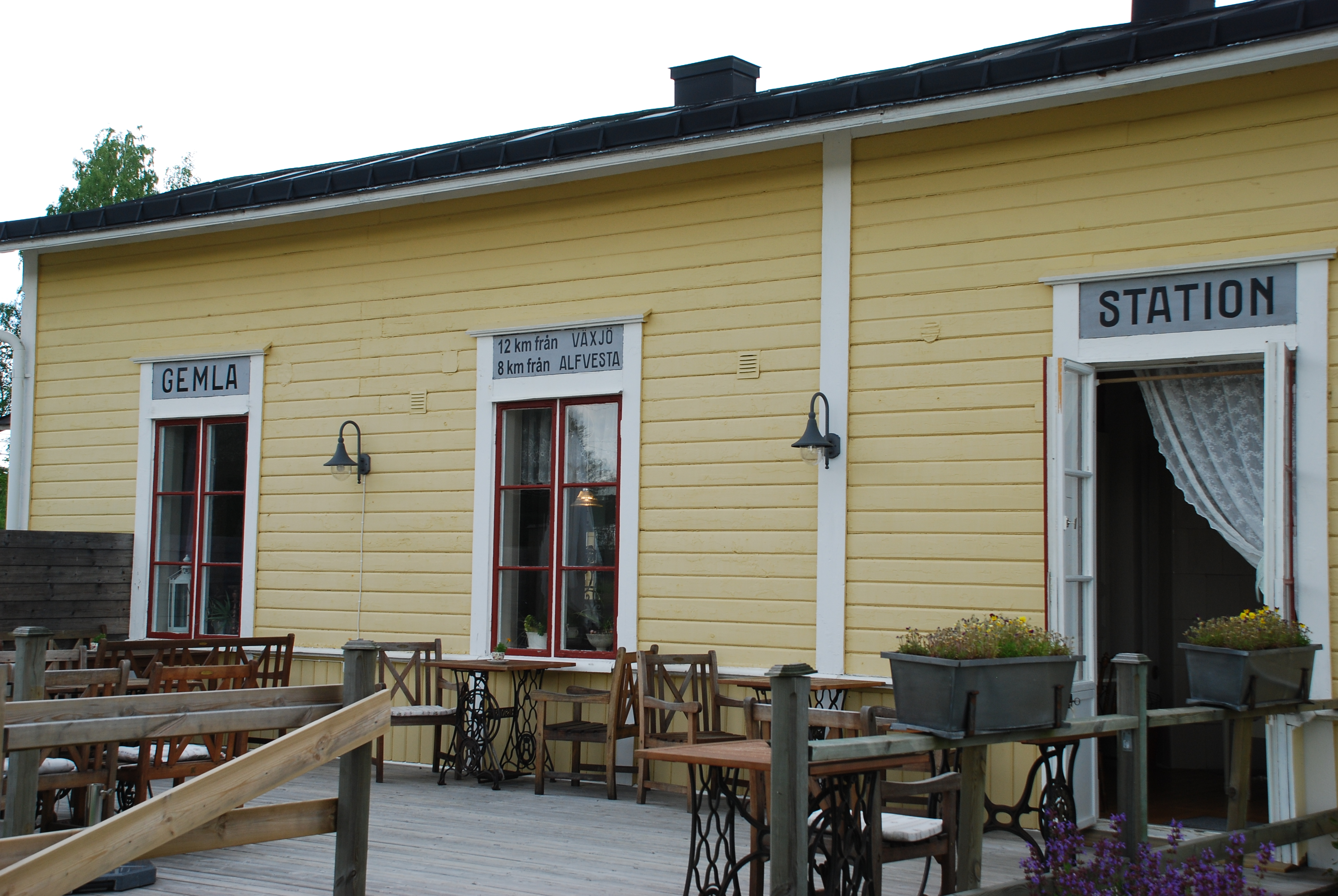 The former railway station of Gemla (between Alvesta and Växjö)